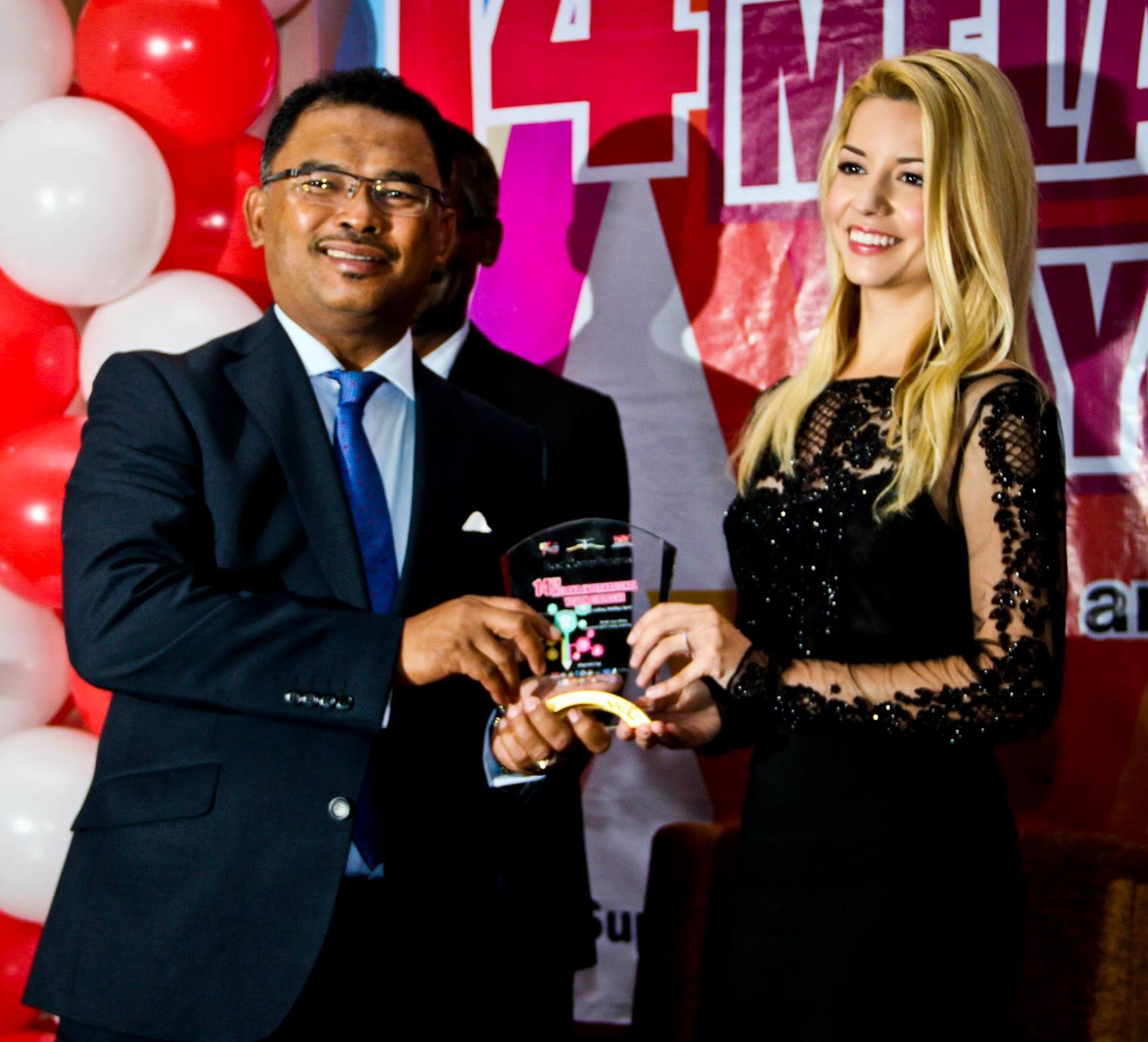 Masiela Lusha with Datuk Seri Ir. Haji Idris bin Haron, the Chief Minister of Melaka, Malaysia attending an event for the World Assembly of Youth